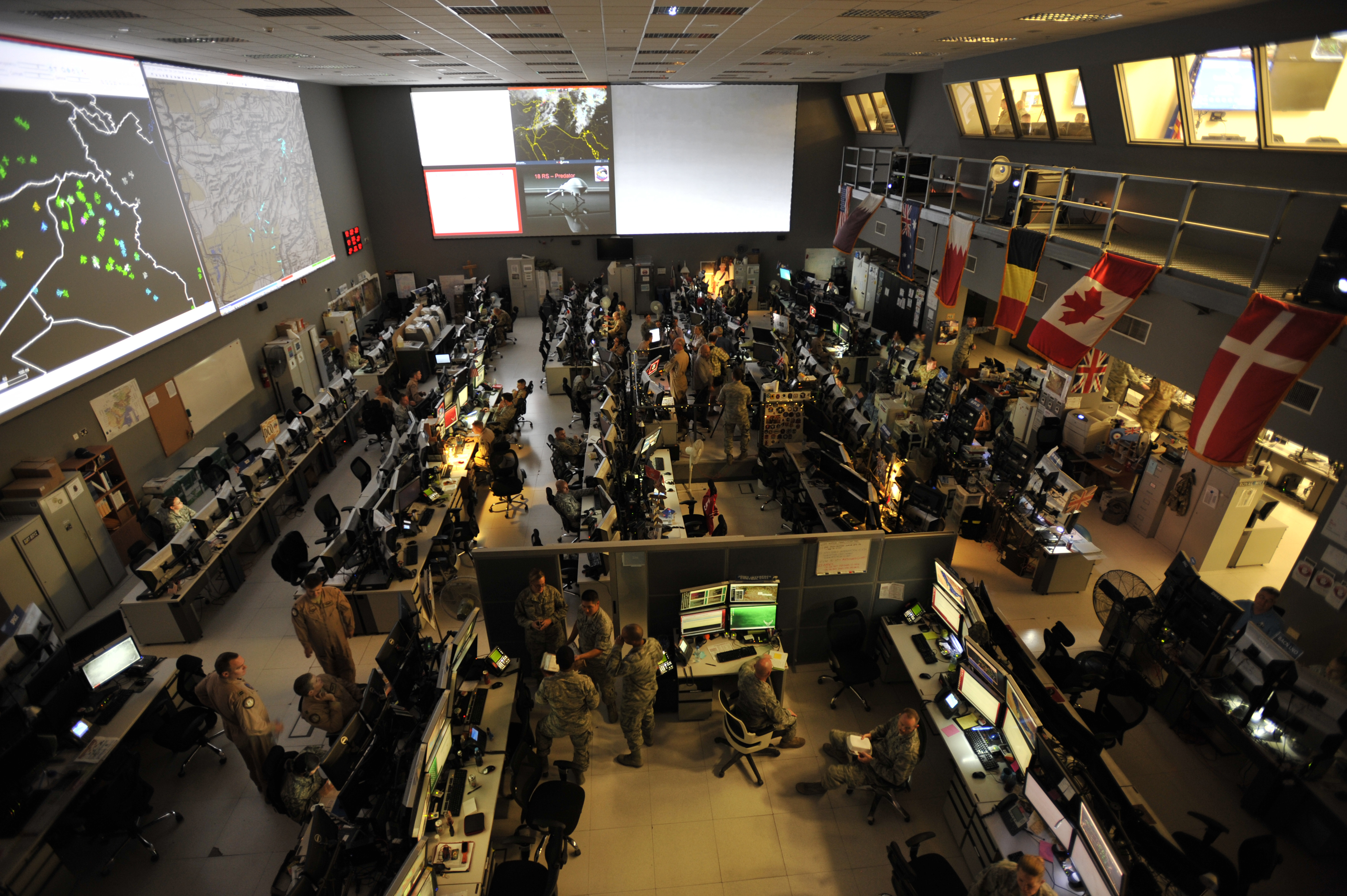 Combined Air and Space Operations Center (CAOC) at Al Udeid Air Base, Qatar, provides command and control of air power throughout Iraq, Syria, Afghanistan, and 17 other nations. The CAOC is comprised of a joint and Coalition team that executes day-to-day combined air and space operations and provides rapid reaction, positive control, coordination, and de-confliction of weapon systems. (U.S. Air Force photo by Tech. Sgt. Joshua Strang)